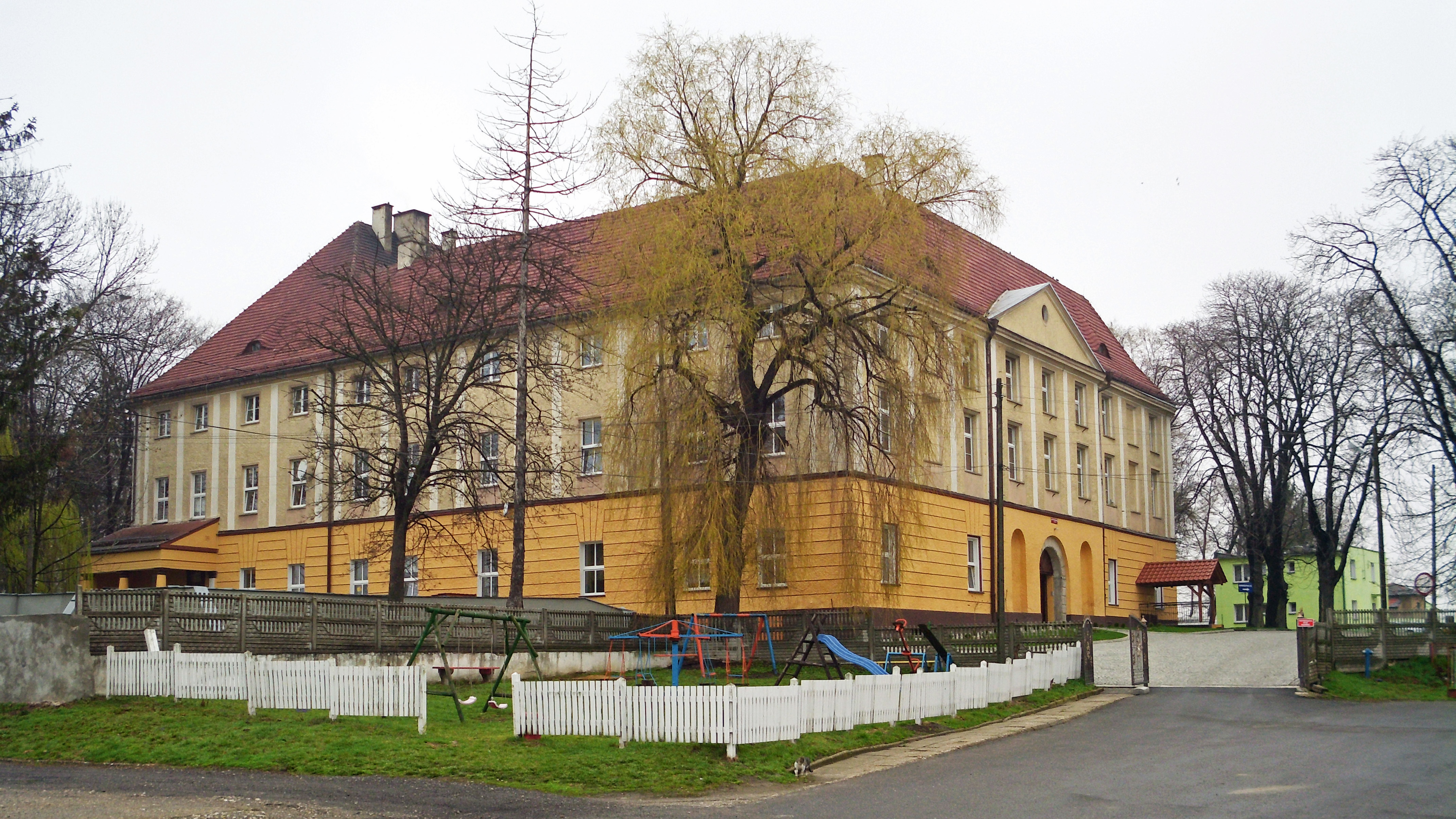 A palace in Klisino, Poland (currently used by an institute for the disabled)